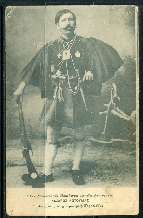 Lazaros Kotoulias